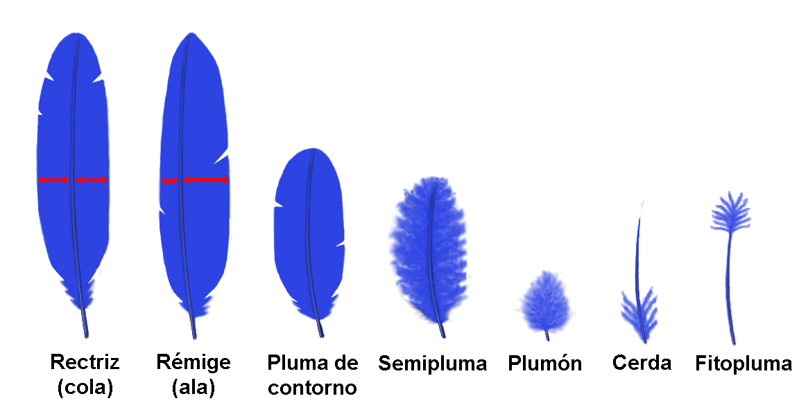 Comparative diagram of the diferent types of feathers. (labels in Spanish)